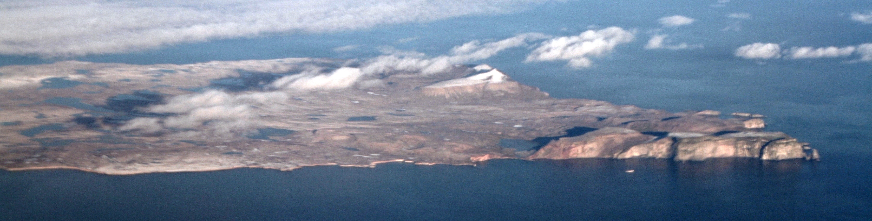 Bjørnøya, Bear Island, the island between Norway and Svalbard. Barents Sea.